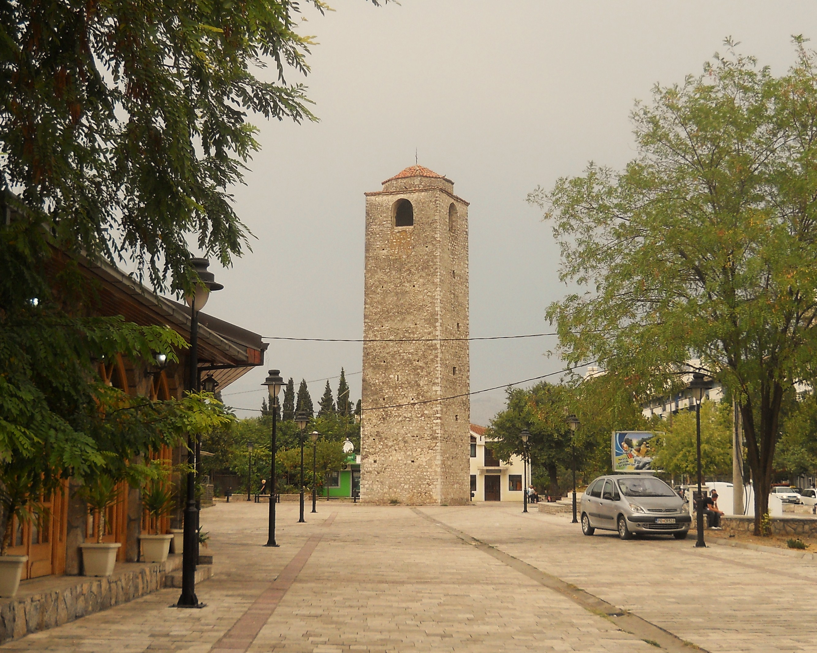 Clock Tower in Podgorica